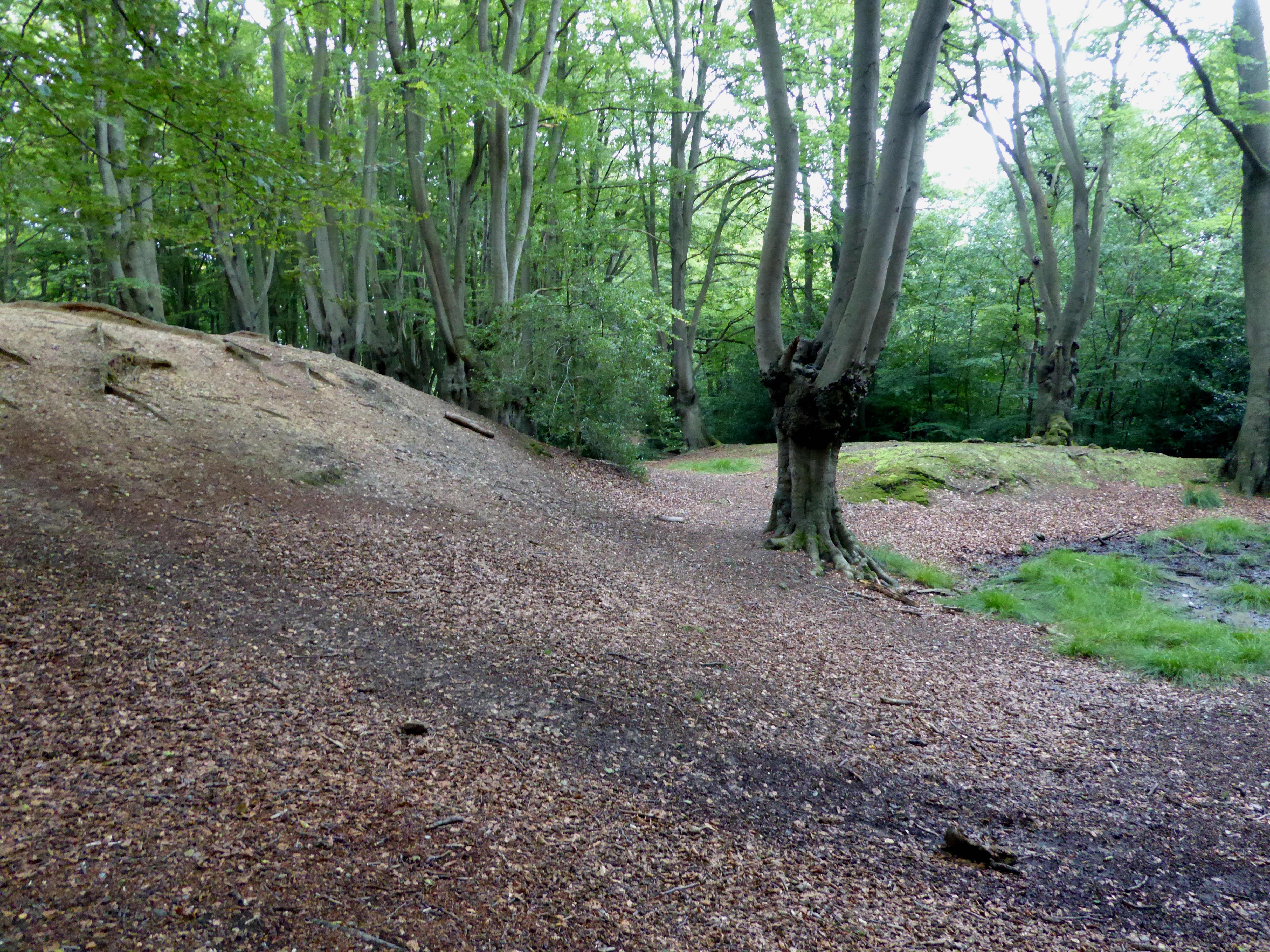 The exterior ditch and bank on the north-west of Loughton Camp in Epping Forest, Essex.